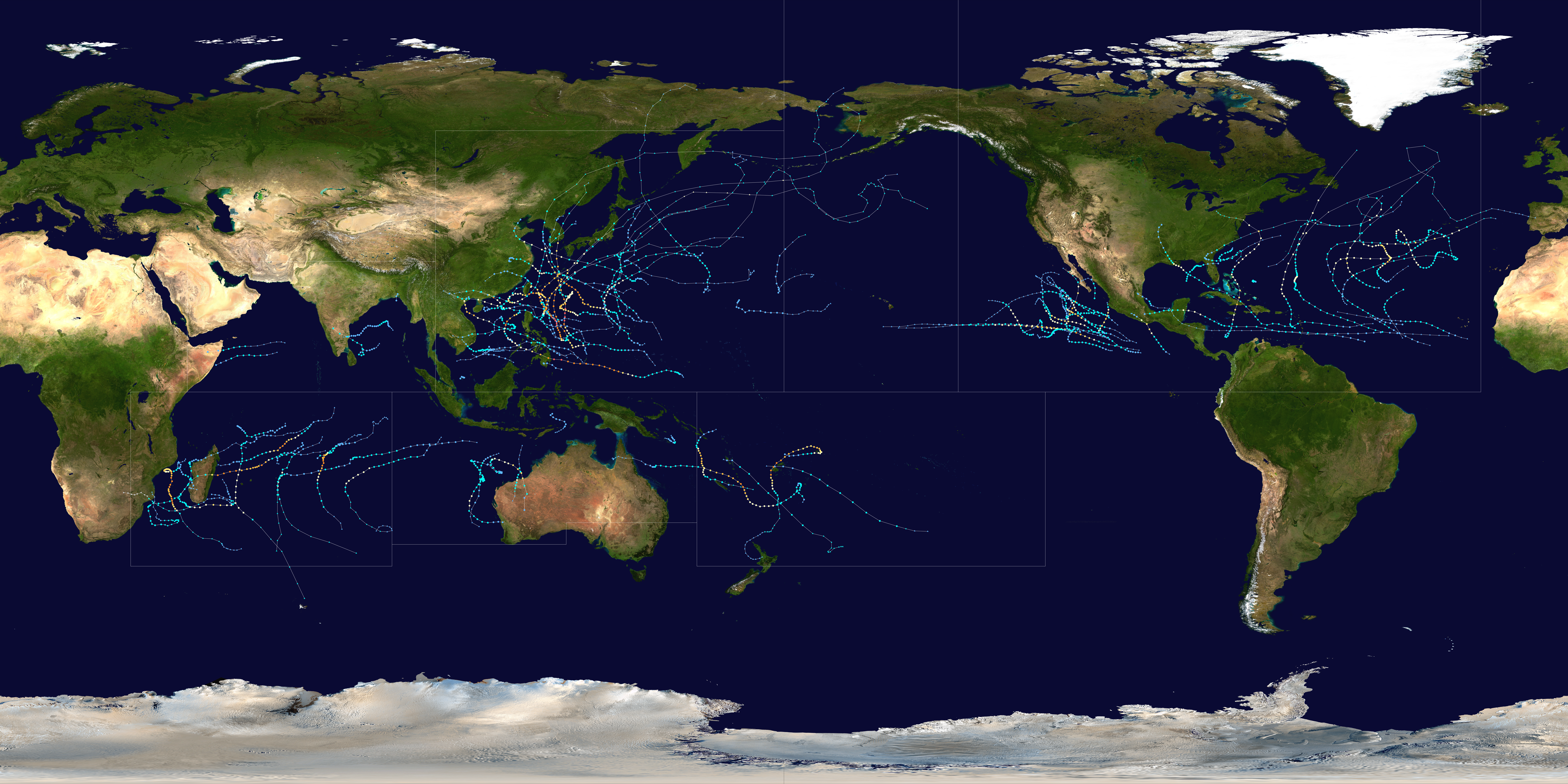 Tropical cyclones worldwide in 2012